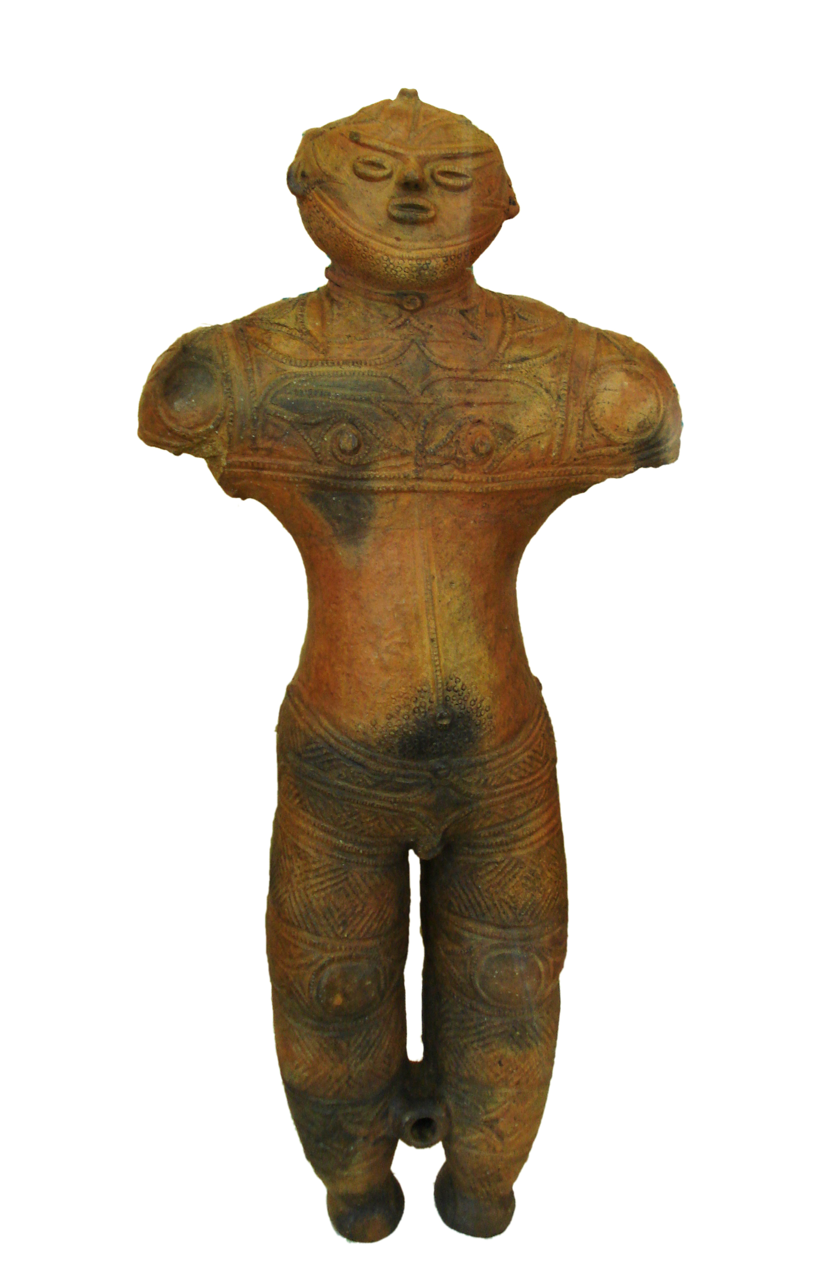 Dogū from Chobonaino archeological site, Hokkaido. Clay figurine with traces of lacquer. H. 41,5 cm. Mimani Kayabechō Board of Education. Hakodate Jomon Culture Center. Hokkaido.